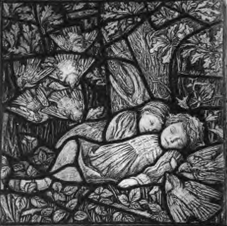 Mary J. Newill submission "Babes in the Woods", stained glass cartoon (design) for the Arts and Crafts Exhibition London, 1893. used in Christopher Whall's manual Stained Glass Work 1905